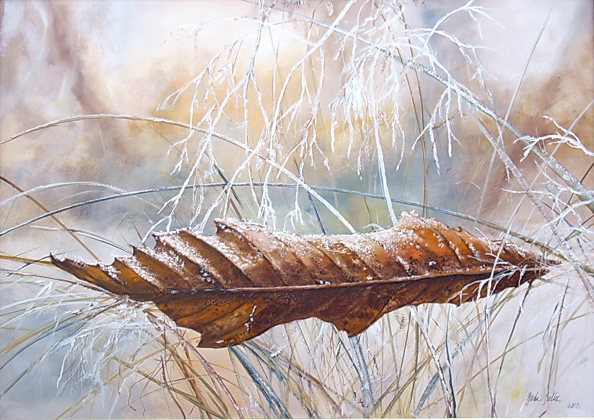 Floating by Balázs Boda, 2003. 50x70cm, oil, wood panel